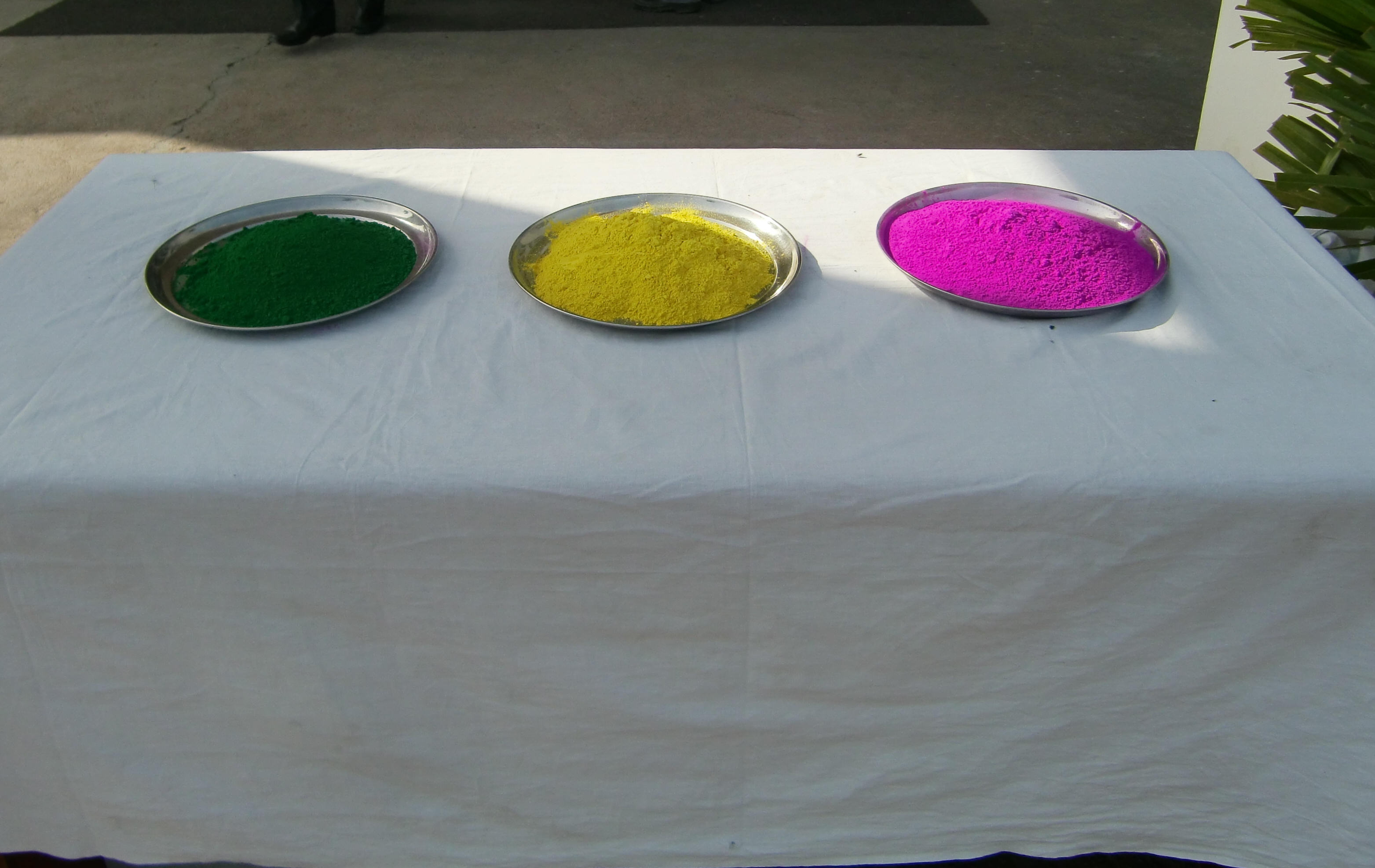 Colorpowder for Holi festival in INDIA